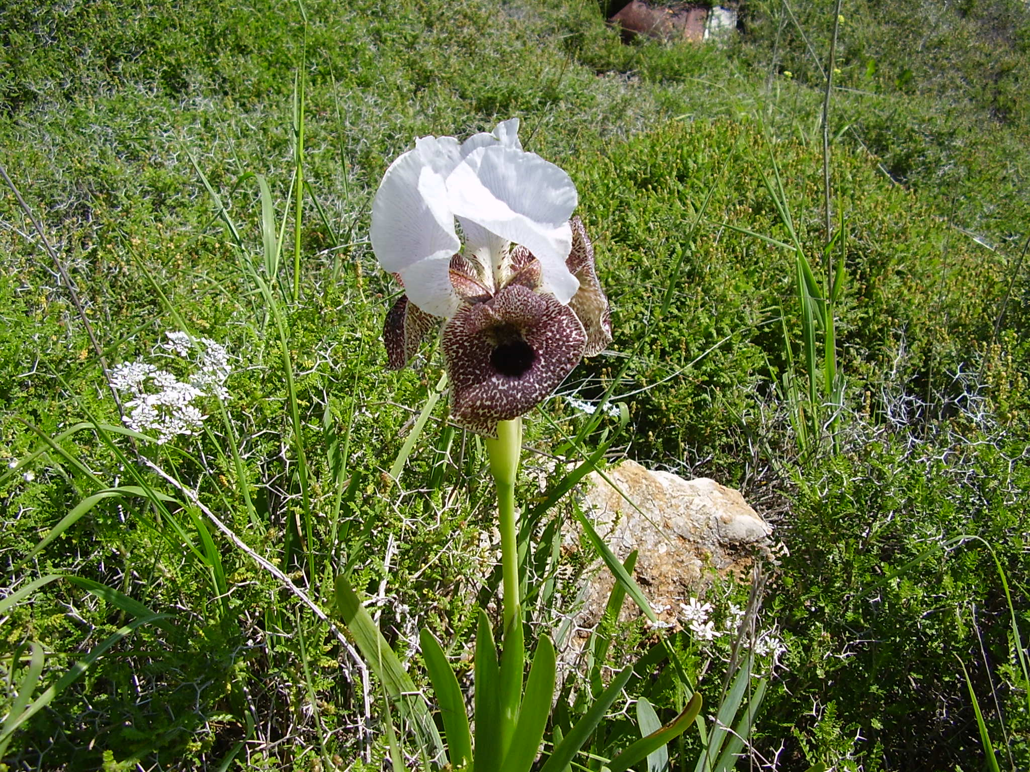 Iris Bismarkia